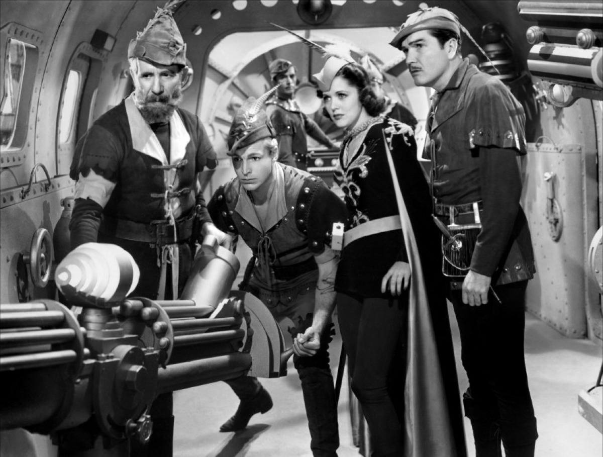 L. to R. : Frank Shannon, Buster Crabbe, Carol Hughes & Roland Drew in Flash Gordon Conquers the Universe - publicity still